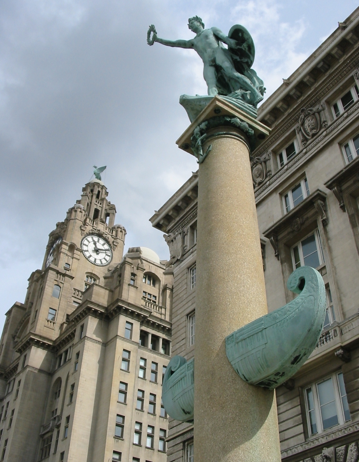 Nrf: Liverpool